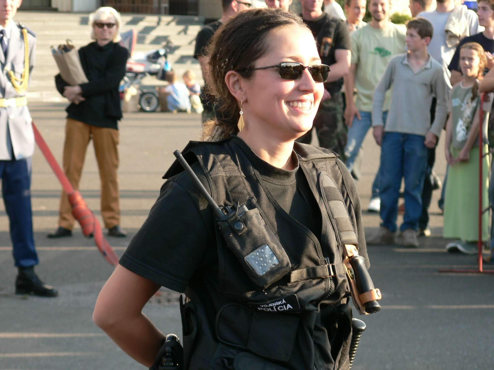 Military policewoman of the Slovak Army